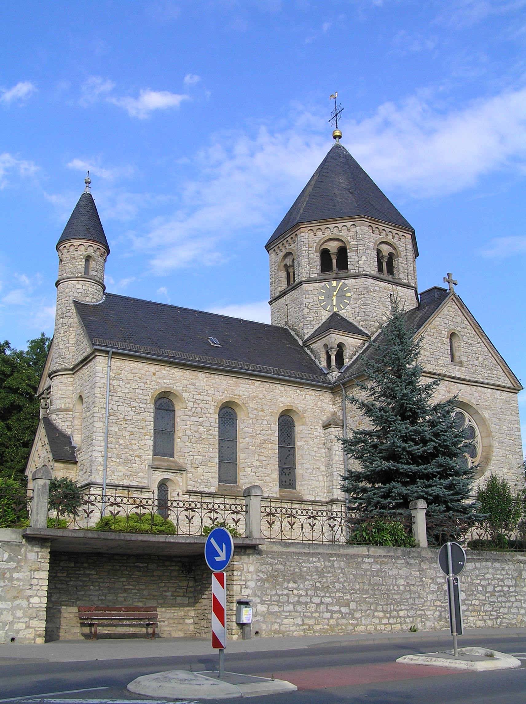 Selztaldom (Ev. Curch)